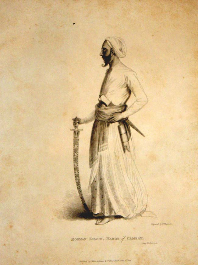 "Hindoo Devotees of the Gosammee & Jetty Tribes," by James Forbes: drawn in the 1760s and 1770s, and published in his 'Oriental Memoirs', London, 1812 "Cobra di capello"* "Mohman Khaun, Nabob of Cambay"* "A Mahomedan Youth of distinction"* "A Young Hindoo among the Secular Brahmins of distinction"* "A Banian Tree, consecrated for Worship in a Guzerat Village"* "Bridge over the River Biswamintree, near Brodera"* "The Indian Hackeree drawn by Guzerat Oxen"* Source: ebay, Sept. 2004